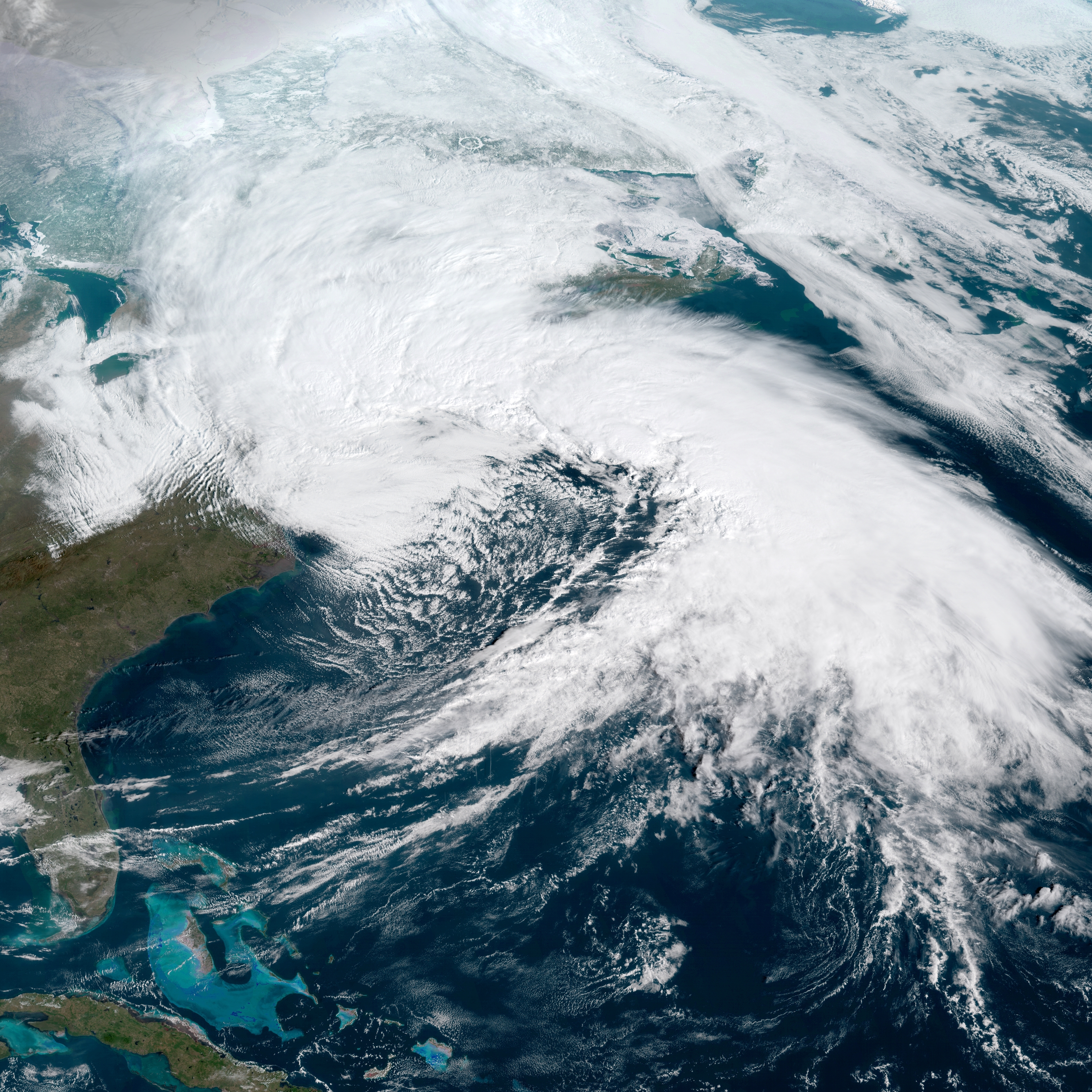 GOES-16 satellite image of a strong nor'easter developing off the East Coast of the United States on March 2.